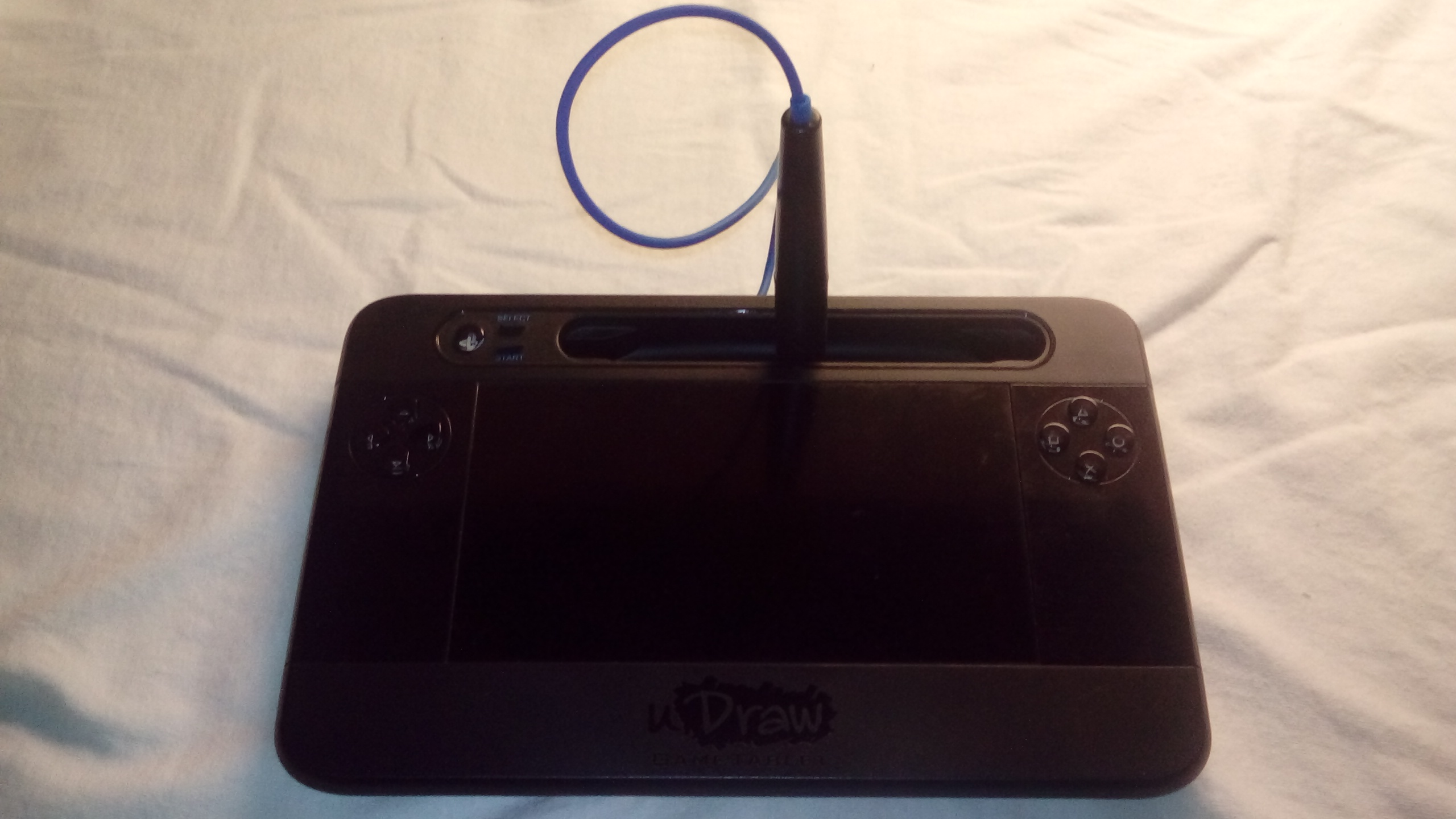 A black PS3 UDraw tablet, with stylus in stand, against a white background.